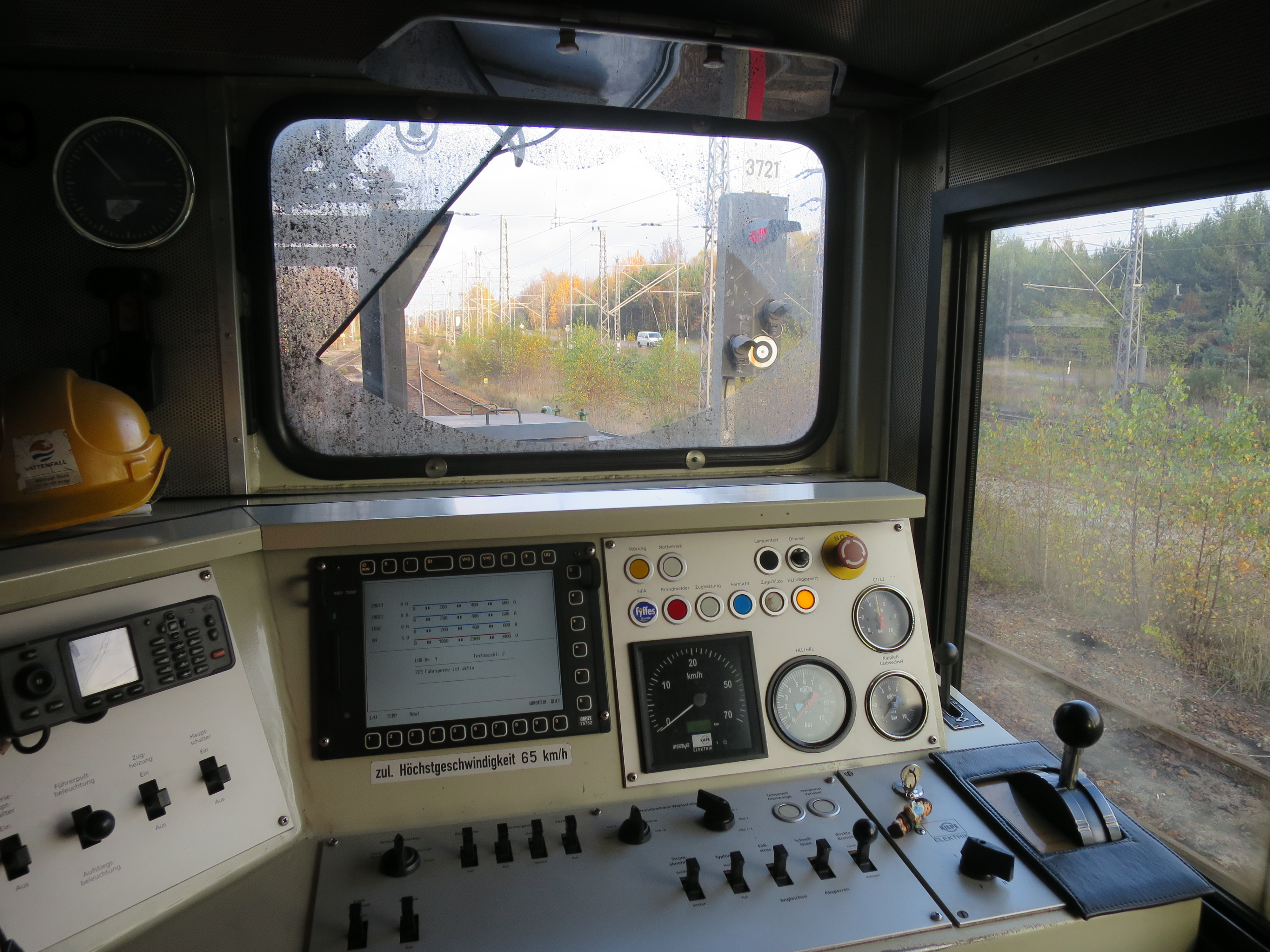 Driver's cabin of LEW EL 2m